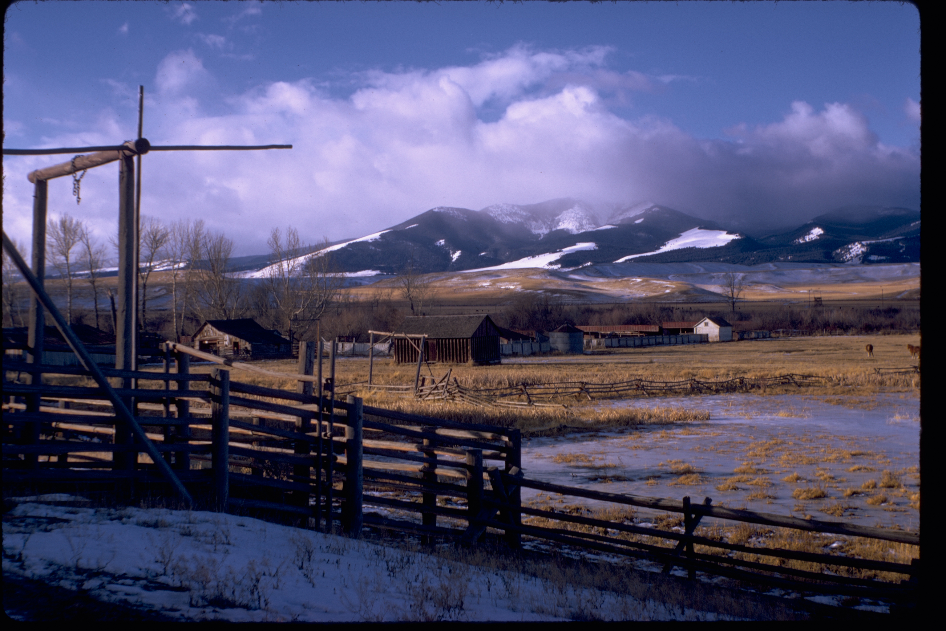 Wide open spaces, the hard-working cowboy, his spirited cow pony, and vast herds of cattle are among the strongest symbols of the American West. Once the headquarters of a 10 million acre cattle empire, Grant-Kohrs Ranch National Historic Site is a working cattle ranch that preserves these symbols and commemorates the role of cattlemen in American history.